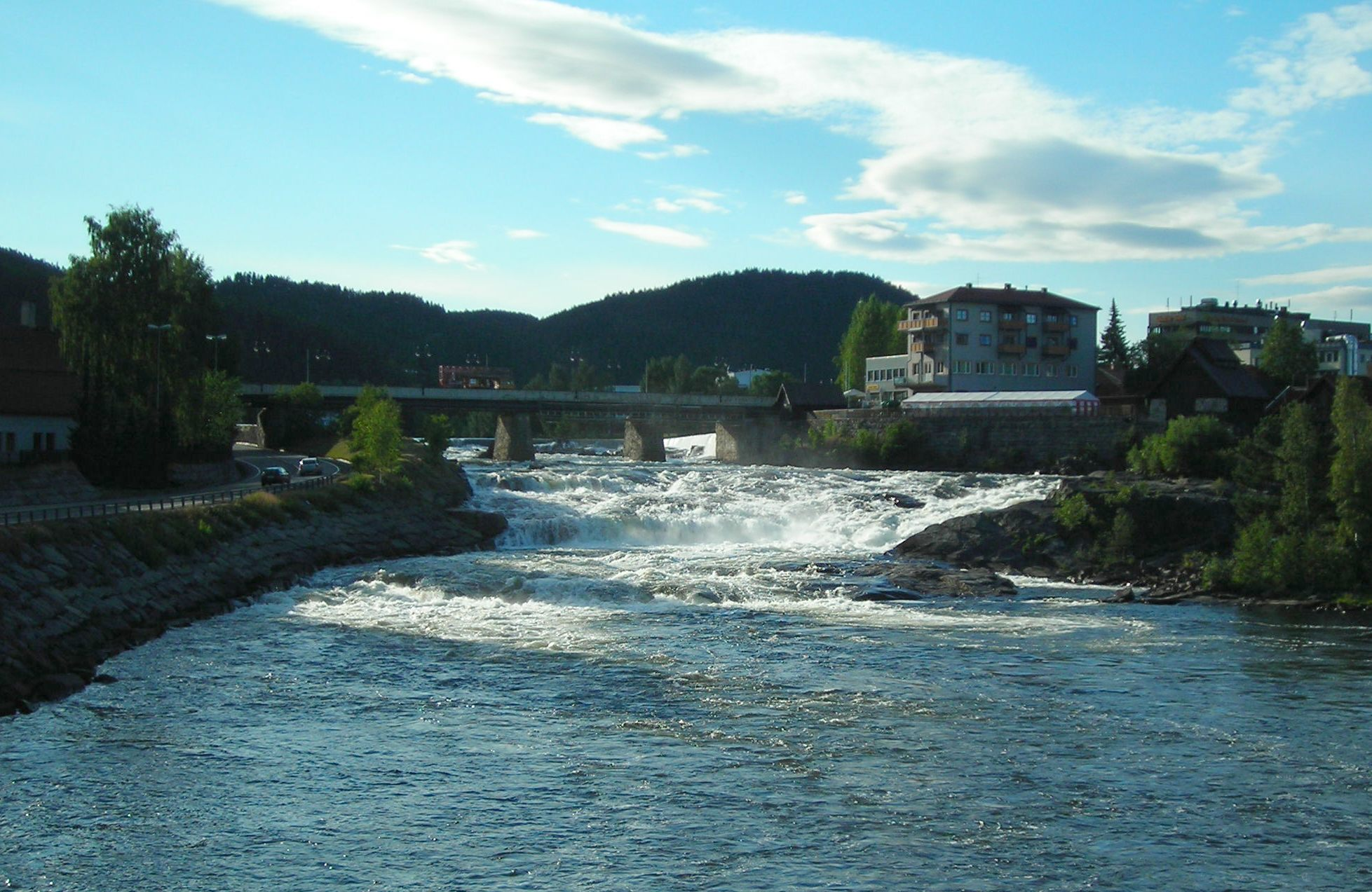 Waterfall in Kongsberg, Norway. Road E134 at left.